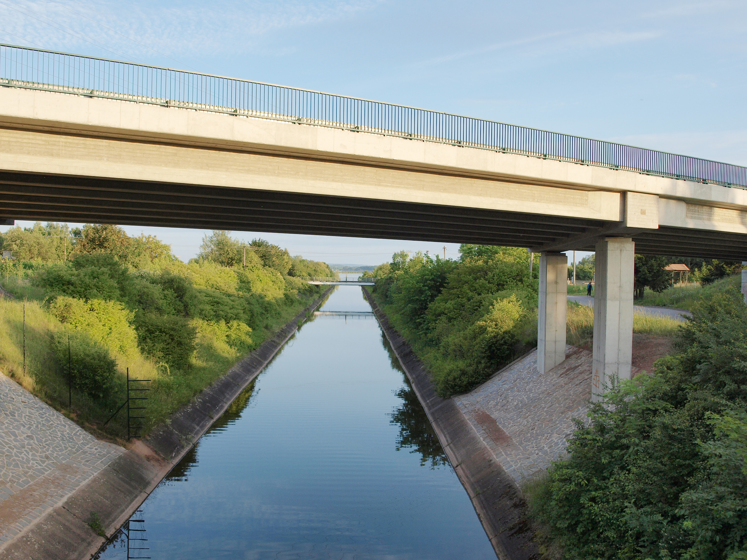 Bridge over feeder canal to/from Rozkoš, Česká Skalice